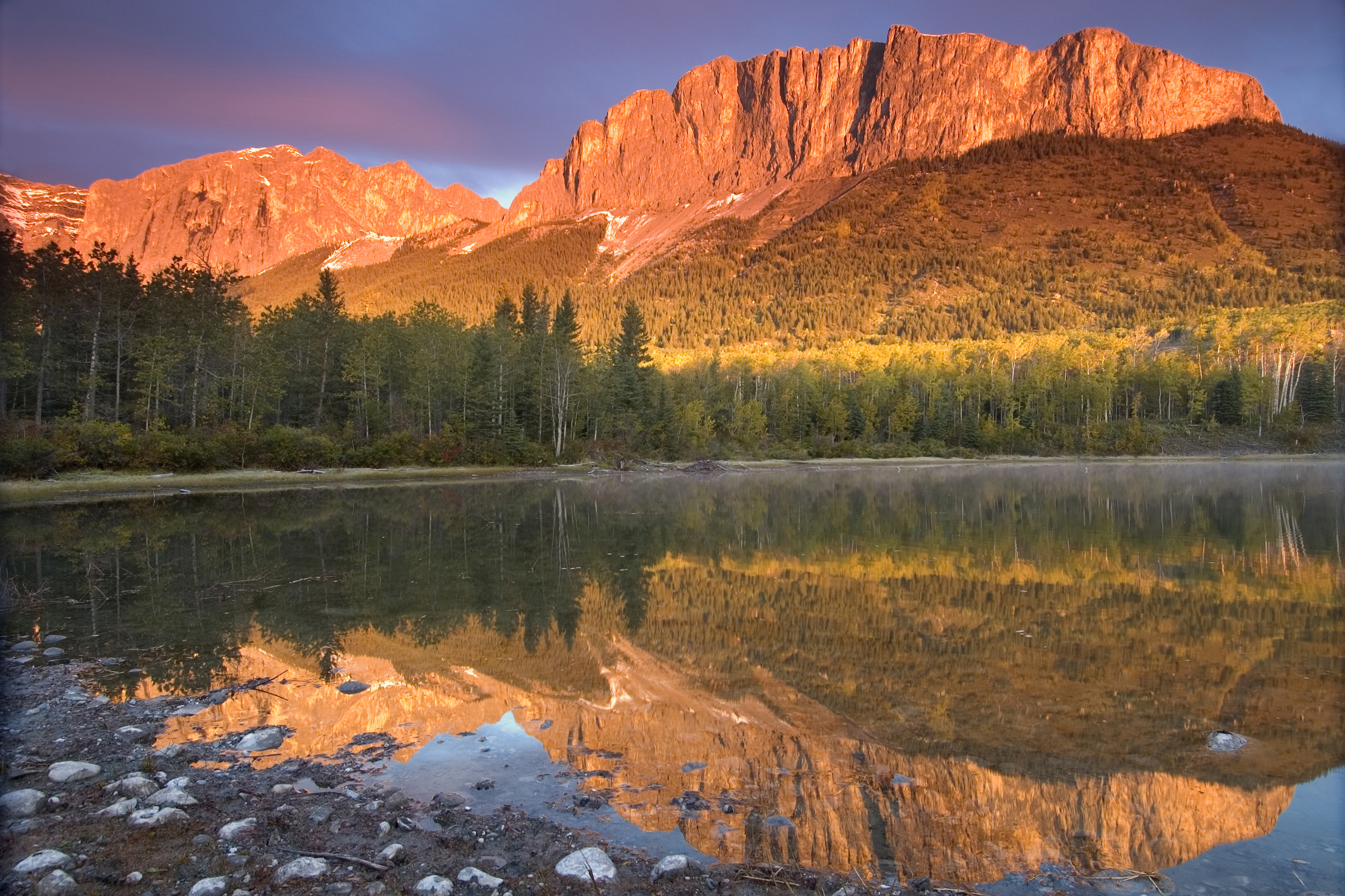 Officially known as Mount John Laurie, Yamnuska is the popular name for this mountain in Kananaskis Country west of Calgary, Alberta, Canada.